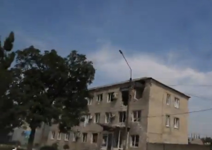 Building hit by shells in Ilovaisk, Donetsk region, August 18, 2014.